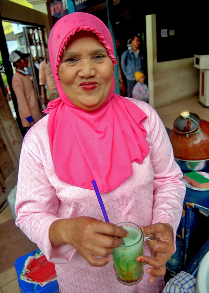 Having a hot afternoon is Solo while waiting for the train? Why not take a glass of sweet cendol or Javanese people prefer to called it "dawet". It's basically starch noodles with green food colouring (usually from Pandan leaf) in coconut milk poured with palm sugar and ice on top.